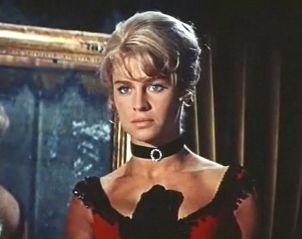 Cropped screenshot of Julie Christie from the trailer for the film Doctor Zhivago